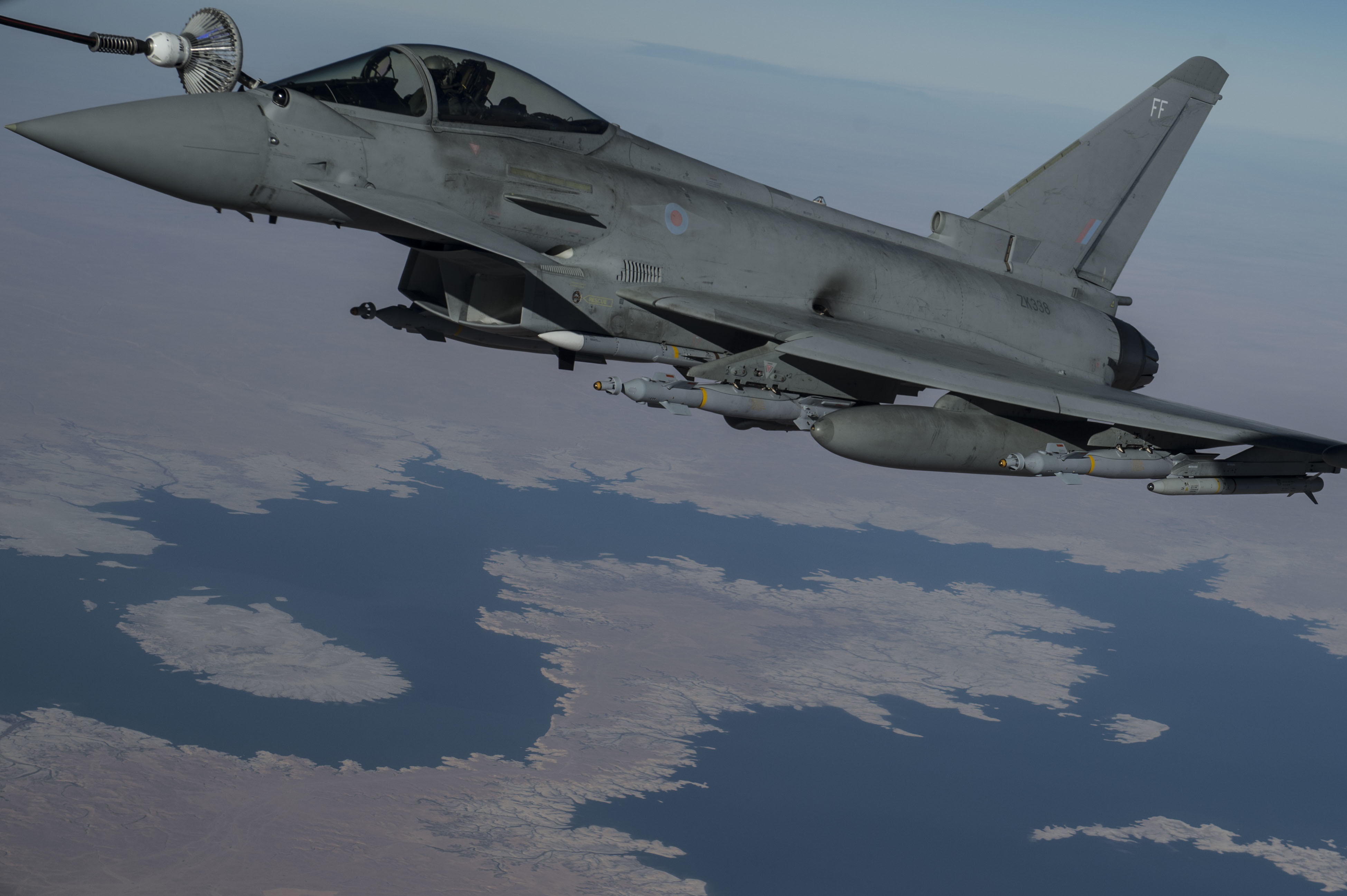 A U.S. Air Force KC-135 Stratotanker refuels a British Typhoon fighter over Iraq, Dec. 22, 2015. Coalition forces fly daily missions in support of Operation Shader. (U.S. Air Force photo by Staff Sgt. Corey Hook/Released)